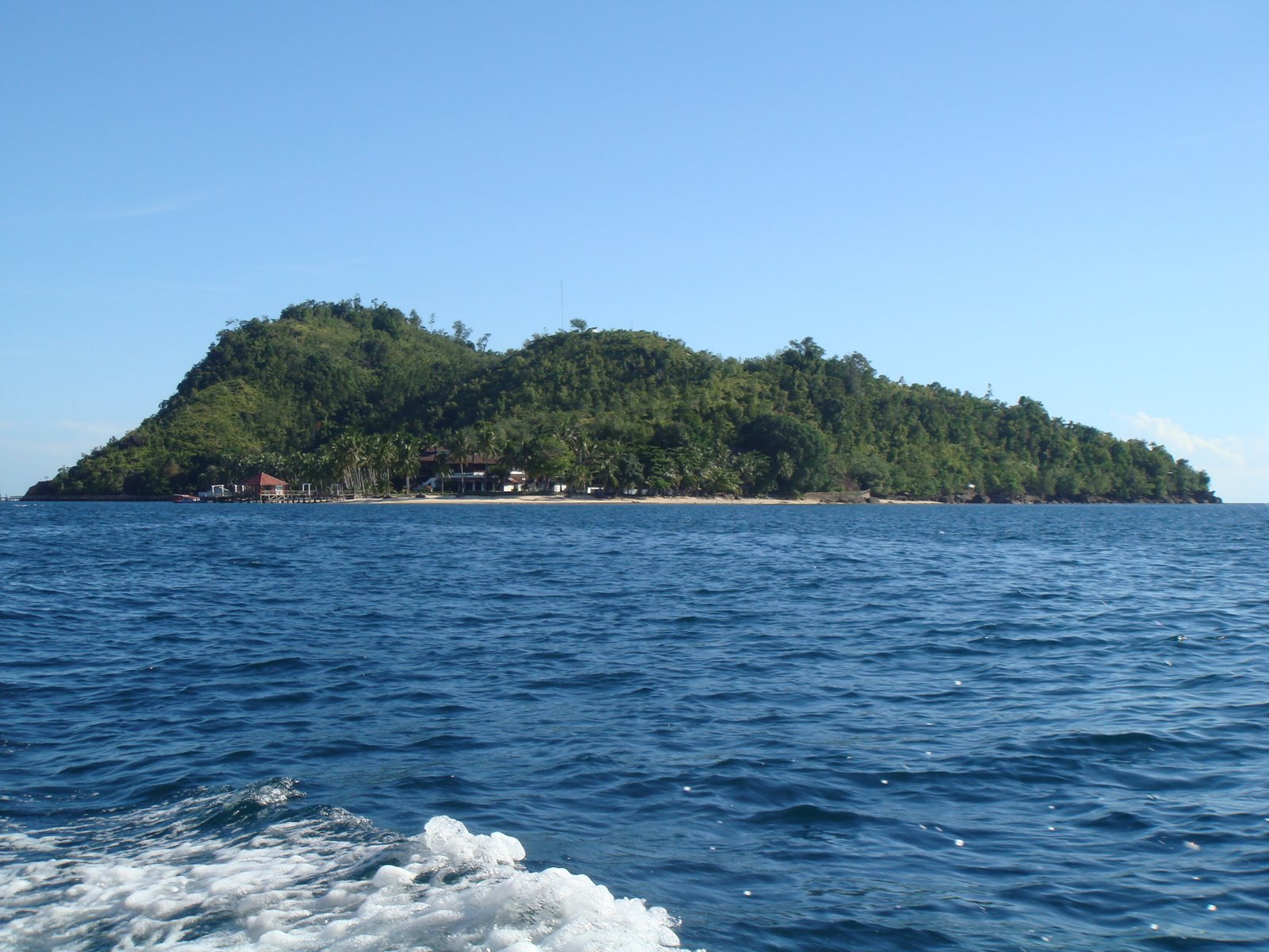 Sikuai island, Padang, West Sumatra, Indonesia